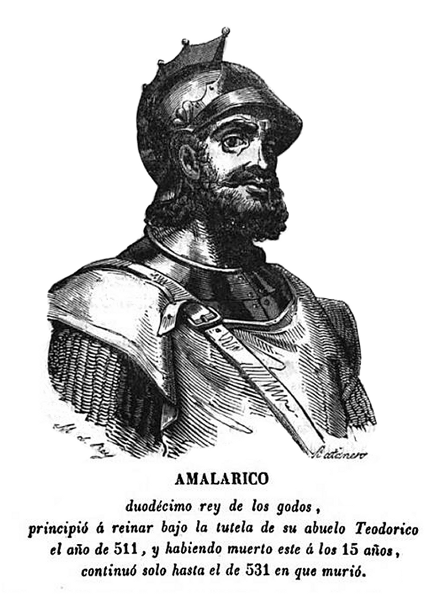 Drawing portrait of Visigoth king, printed into the book with N°12 AMALARICO